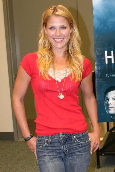 Actress Ali Larter at Comicon